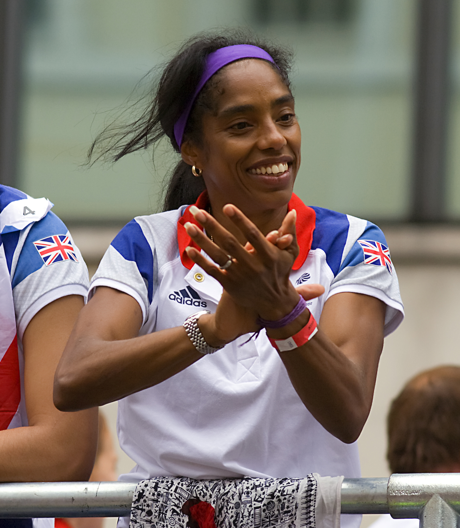 London 2012 Olympic & Paralympic Games Victory Parade, 10th September